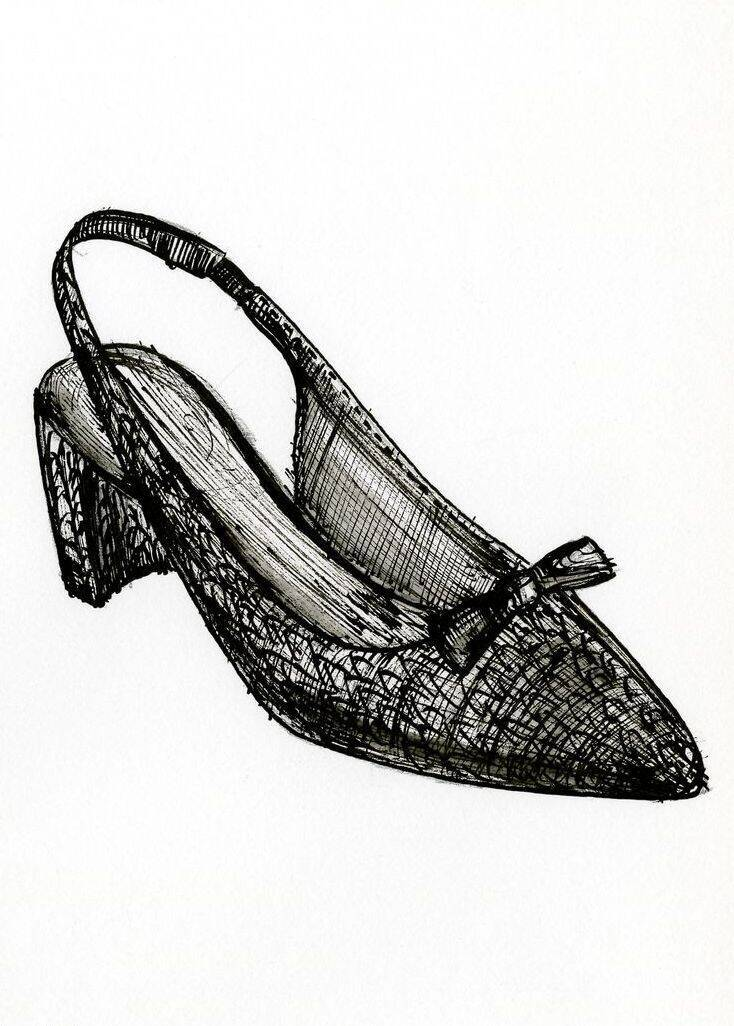 Drawing of the Thesaurus concept : 'sling-back'